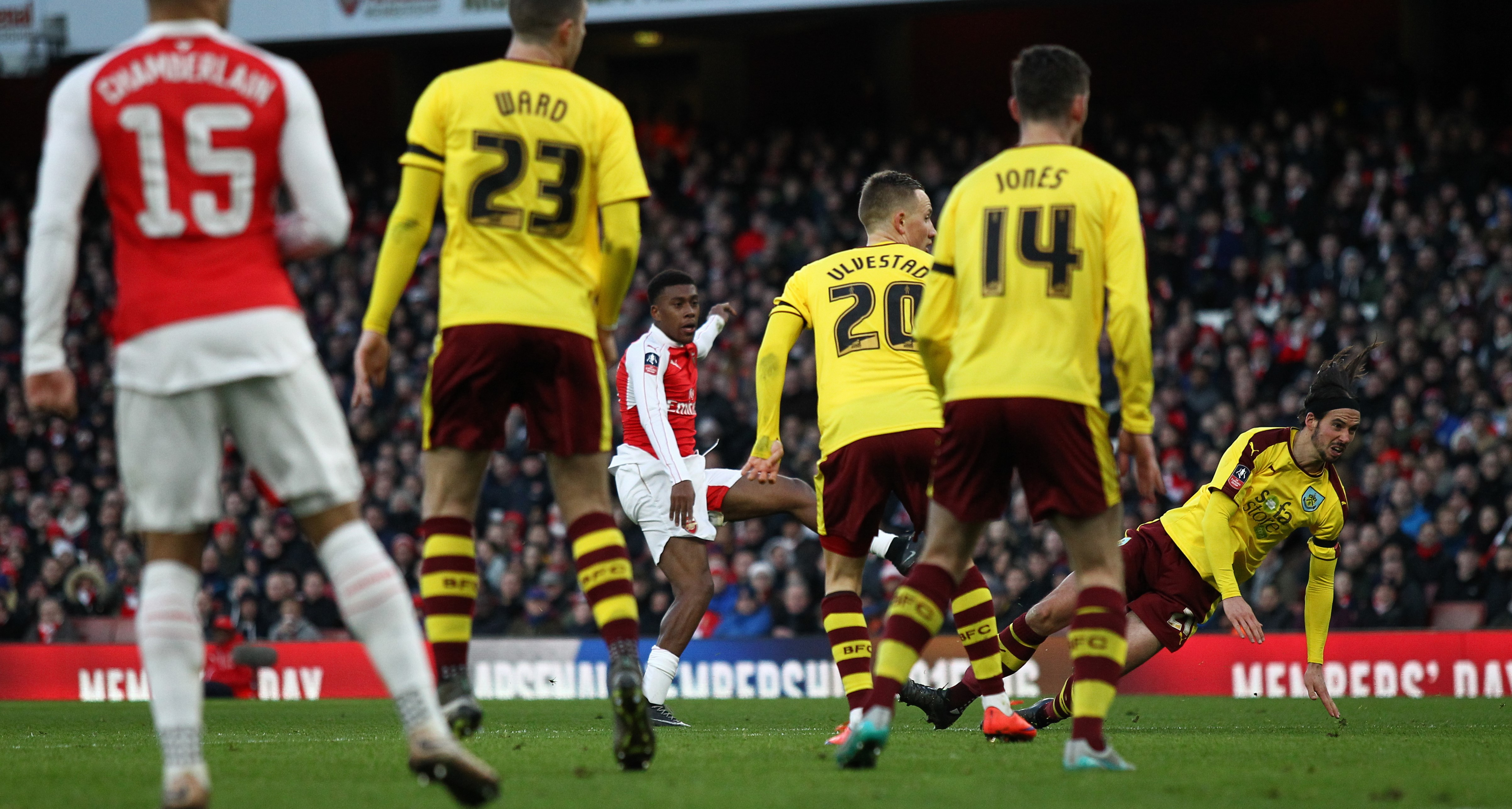 Alex Iwobi of Arsenal shoots at goal during the game against Burnley.